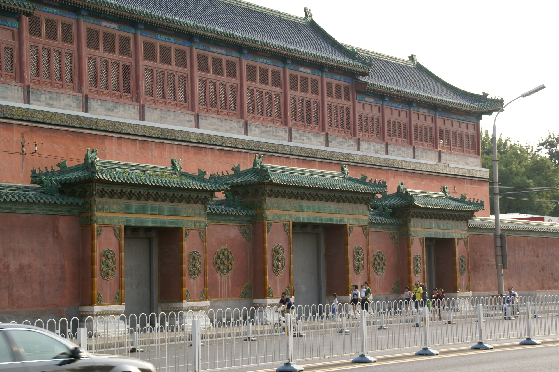 Liulige (Glazed Pavilion) at Beihai Park - Beijing, 17.8.2014